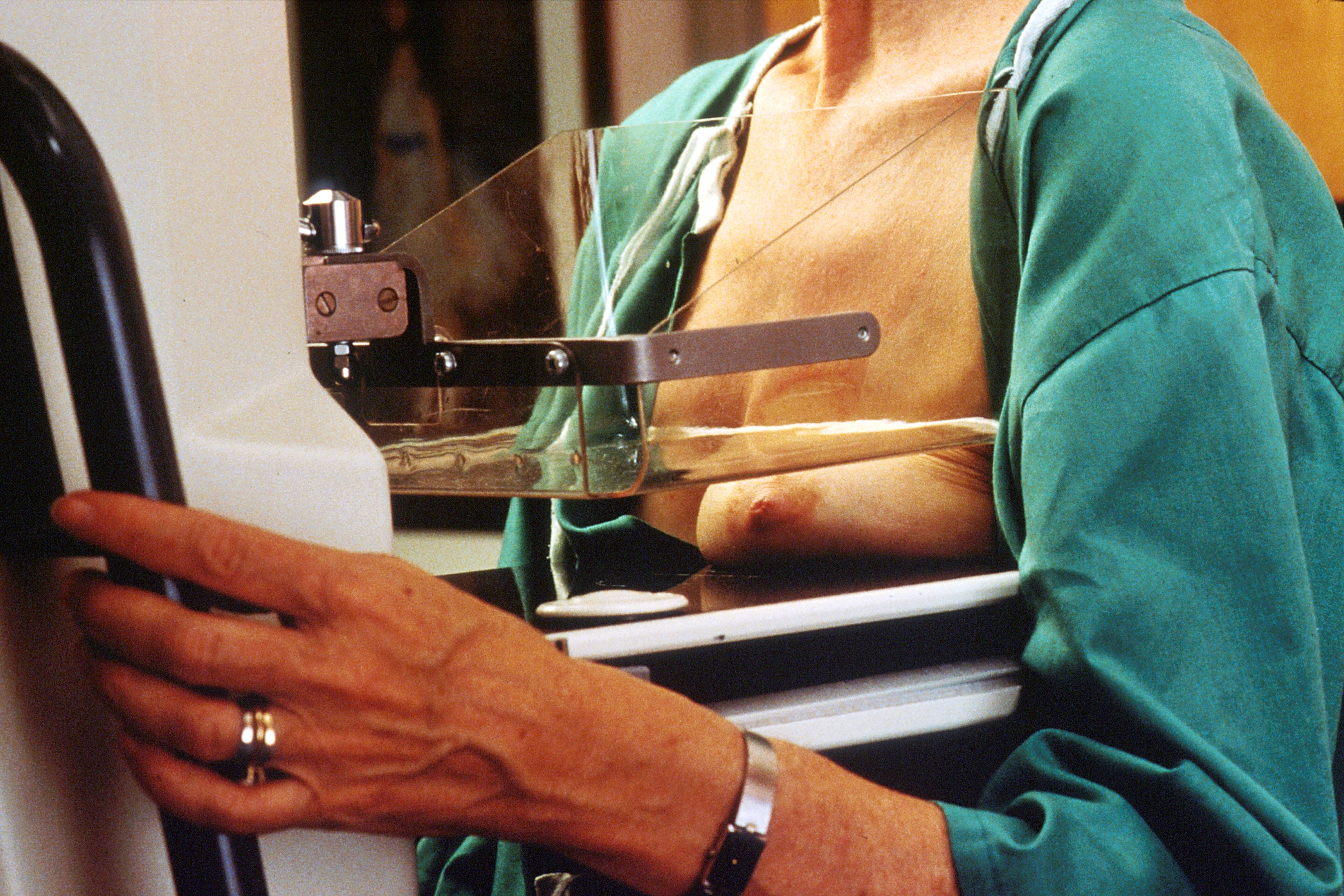 Shown is a breast being compressed to get the optimum mammographic image.